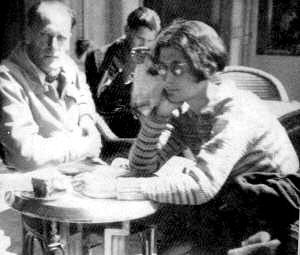 Simone Weil (1909–1943) – a French philosopher, Christian mystic and political activist of Jewish origin. In a cafe.